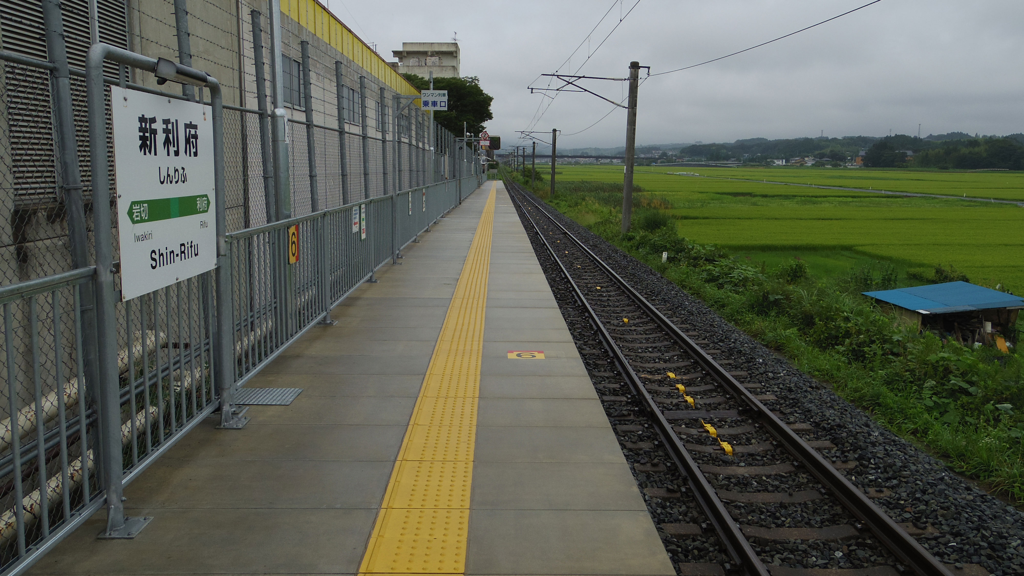 The platform at Shin-Rifu Station on the Rifu Branch of the Tōhoku Main Line, looking north (toward Rifu)